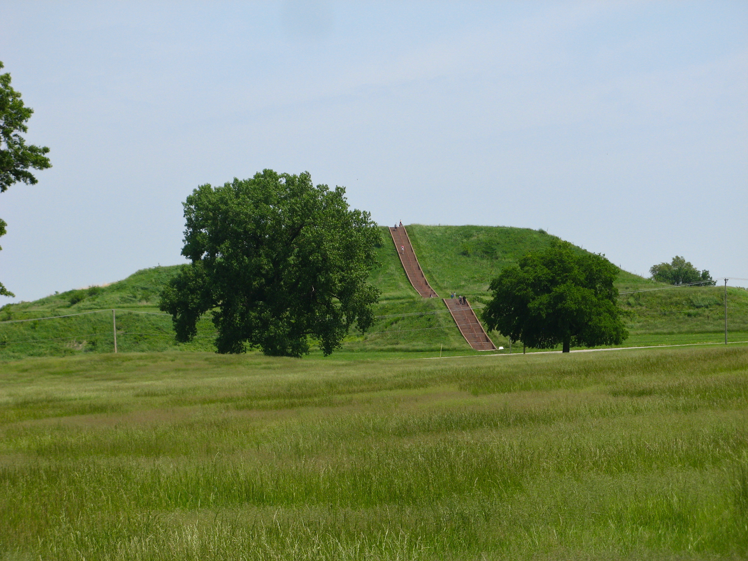 Monk's Mound